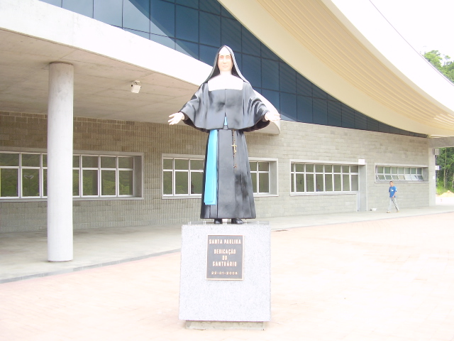 statue of Saint Paulina of the Agonizing Heart of Jesus, in Nova Trento - Santa Catarina, Brazil. photo by Rangel